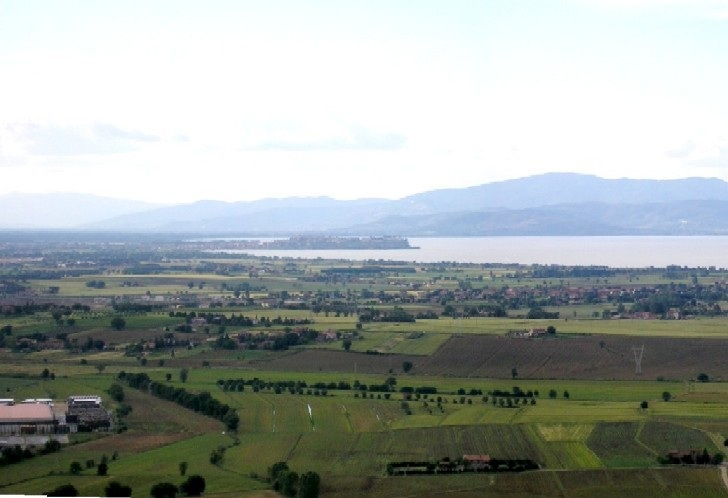 Panicale's countryside